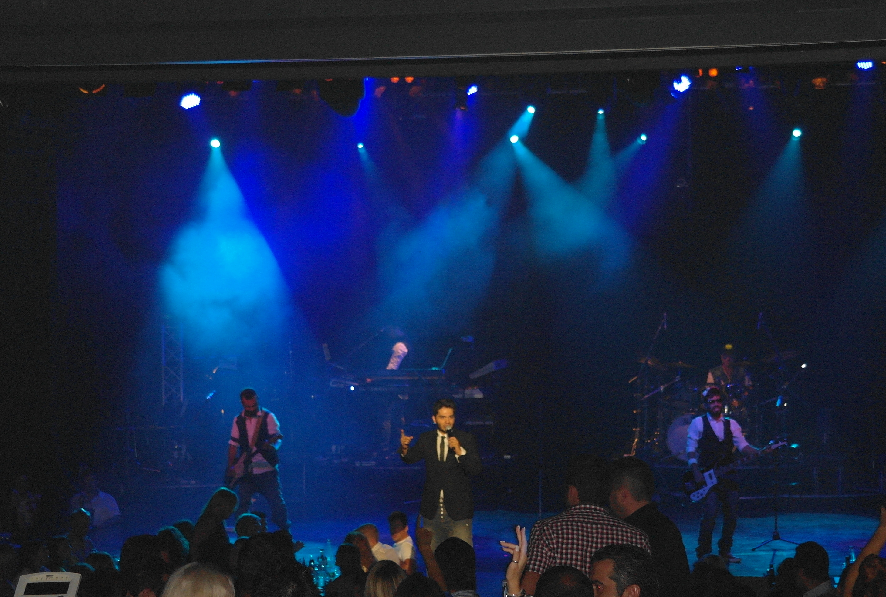 Melisses, Thea club, Athens